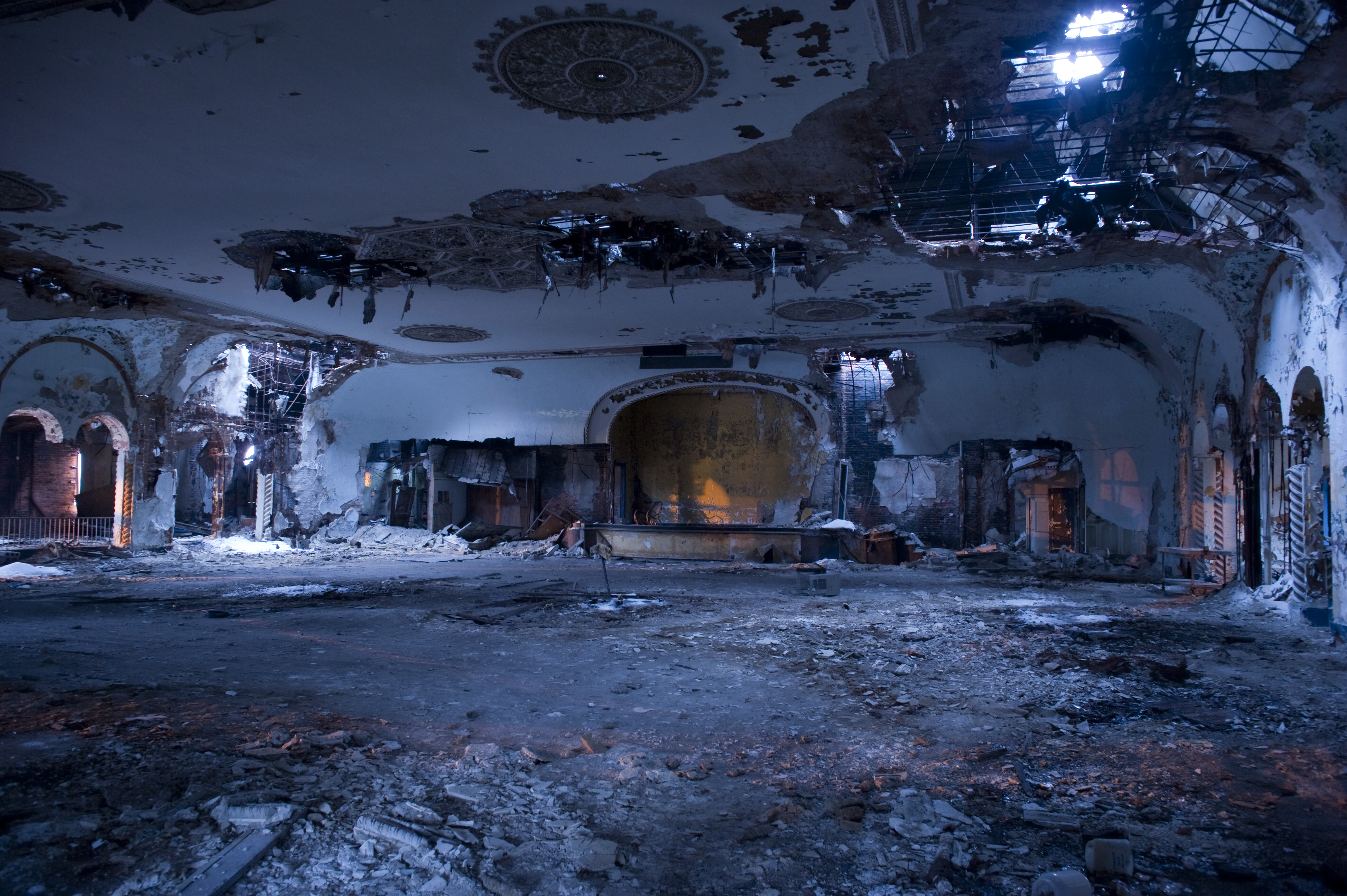 The dance floor of the abandoned Grande Ballroom.